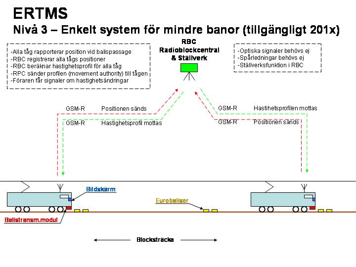 ETRMS Level 3